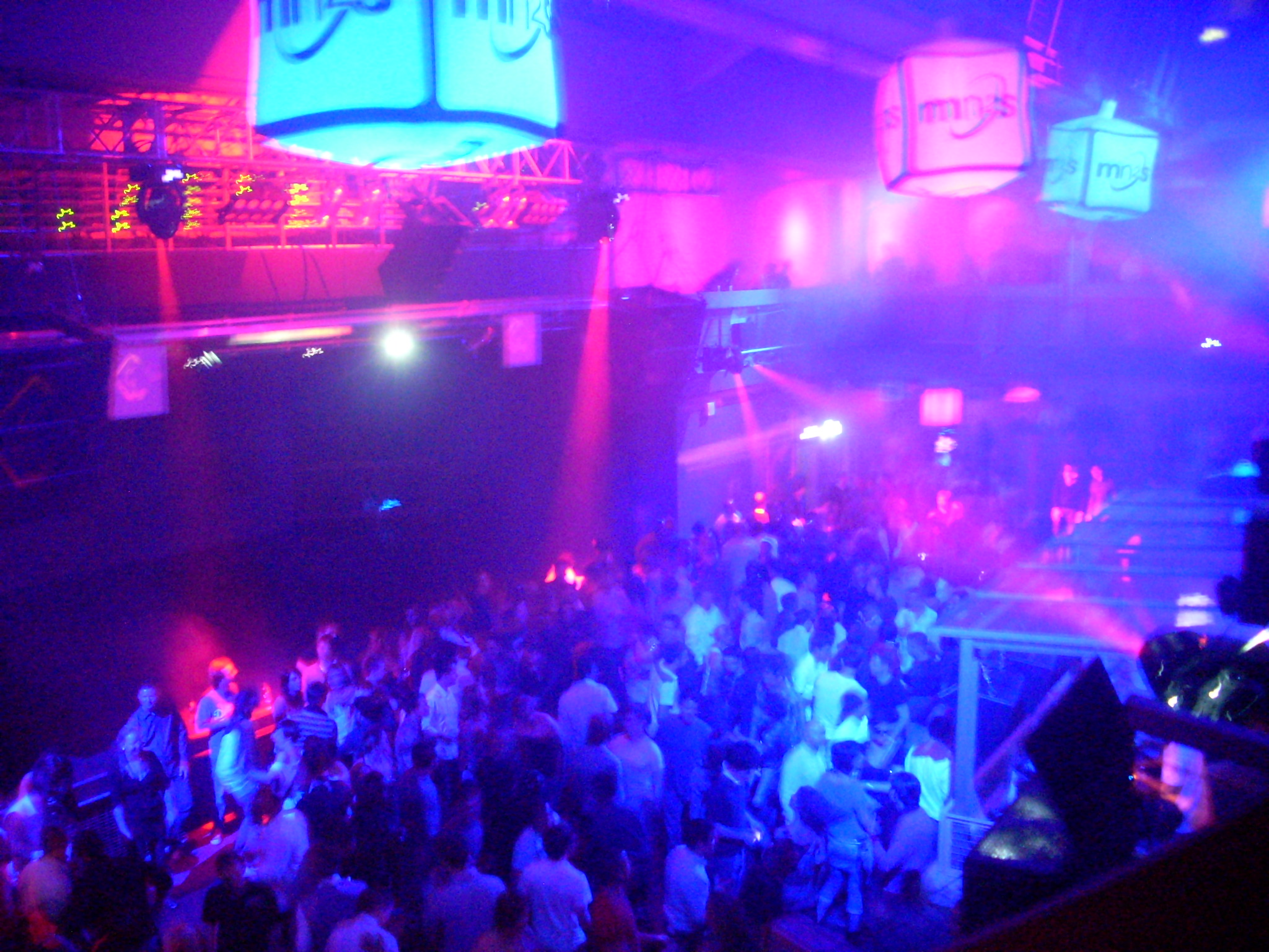 Photo of the dancefloor of the Matter Venue in the O2 London